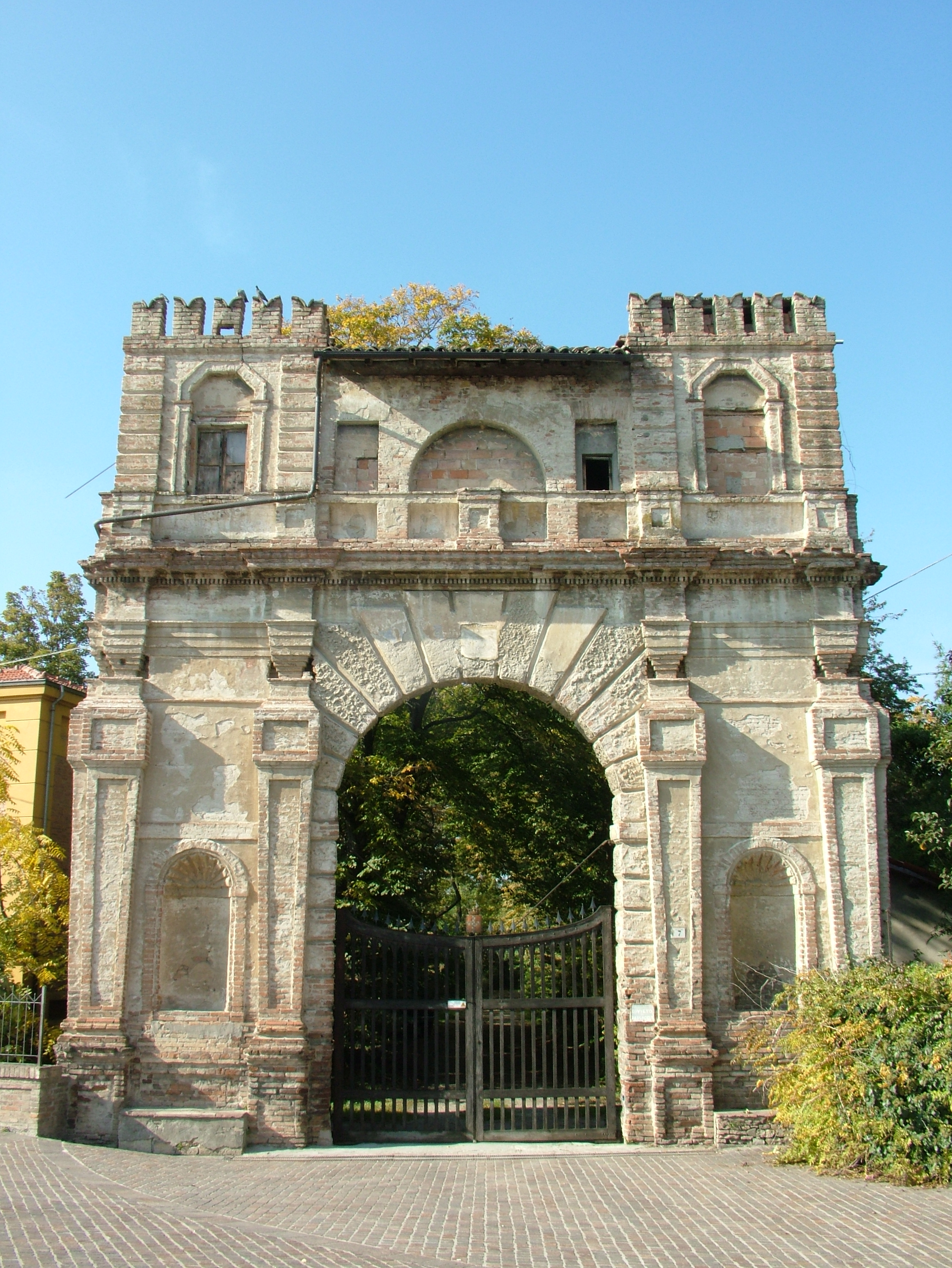 Italy, province of Parma, Collecchio, Arch of Bargello, entrance to the park of Villa Paveri Fontana